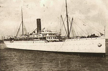 SS Galeka Caption: Union-Castle Line Intermediate Steamer "Galeka" 6772 Tons